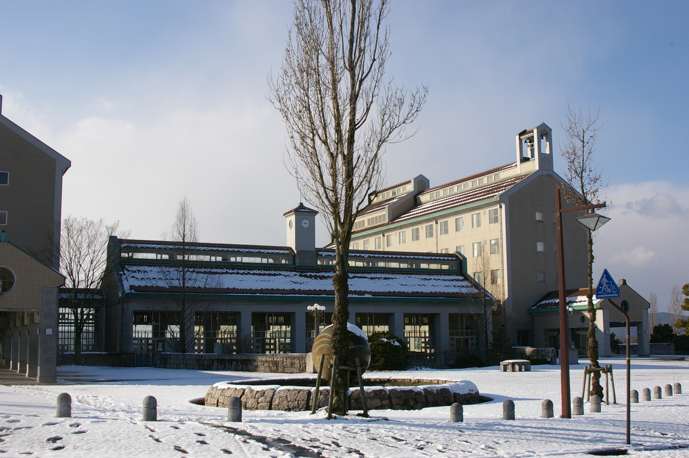 Prefectural University of Hiroshima, Shobara Campus in Shobara, Hiroshima pref., Japan.